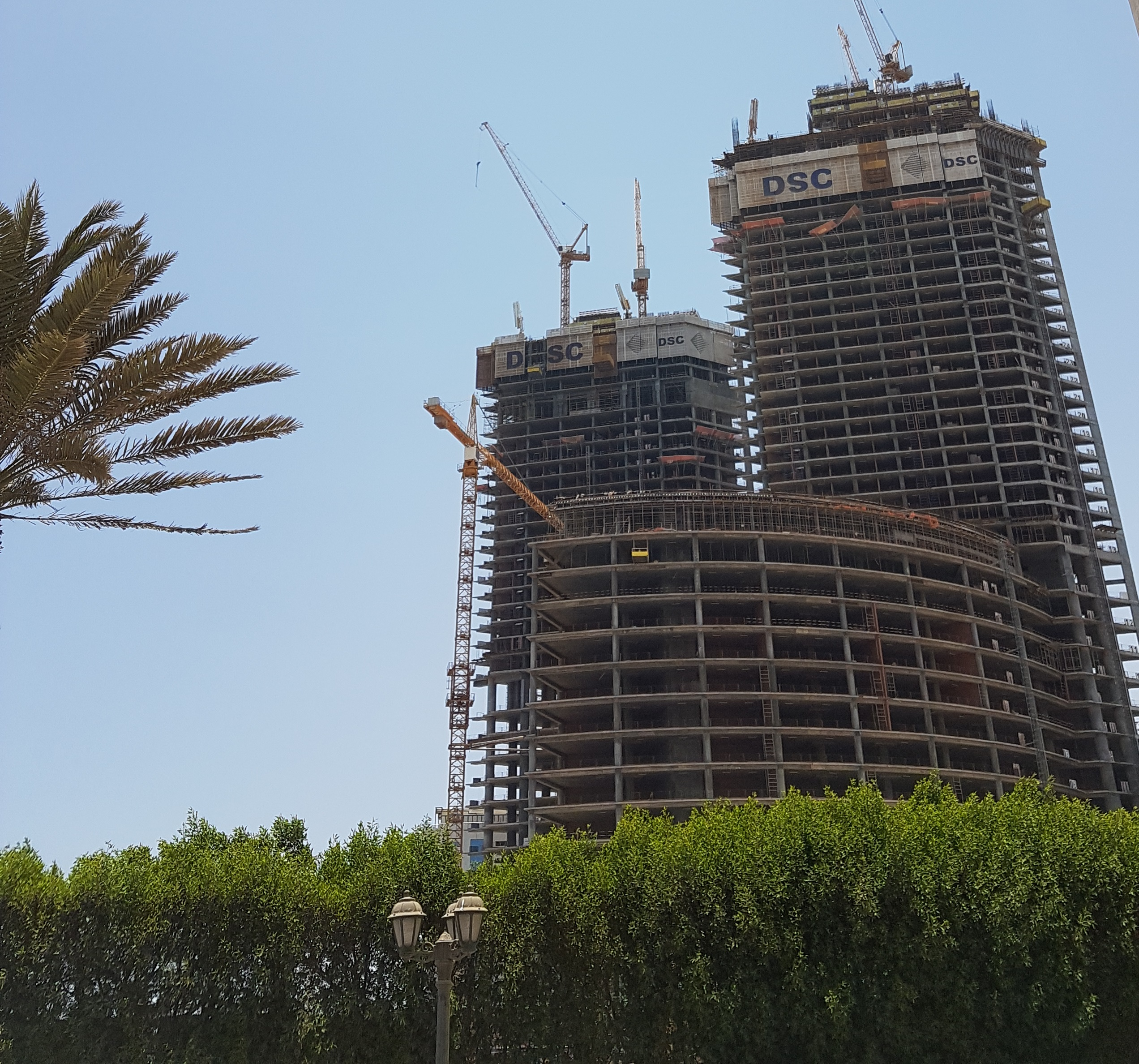 Lamar Towers being built in western Jeddah, Saudi Arabia.